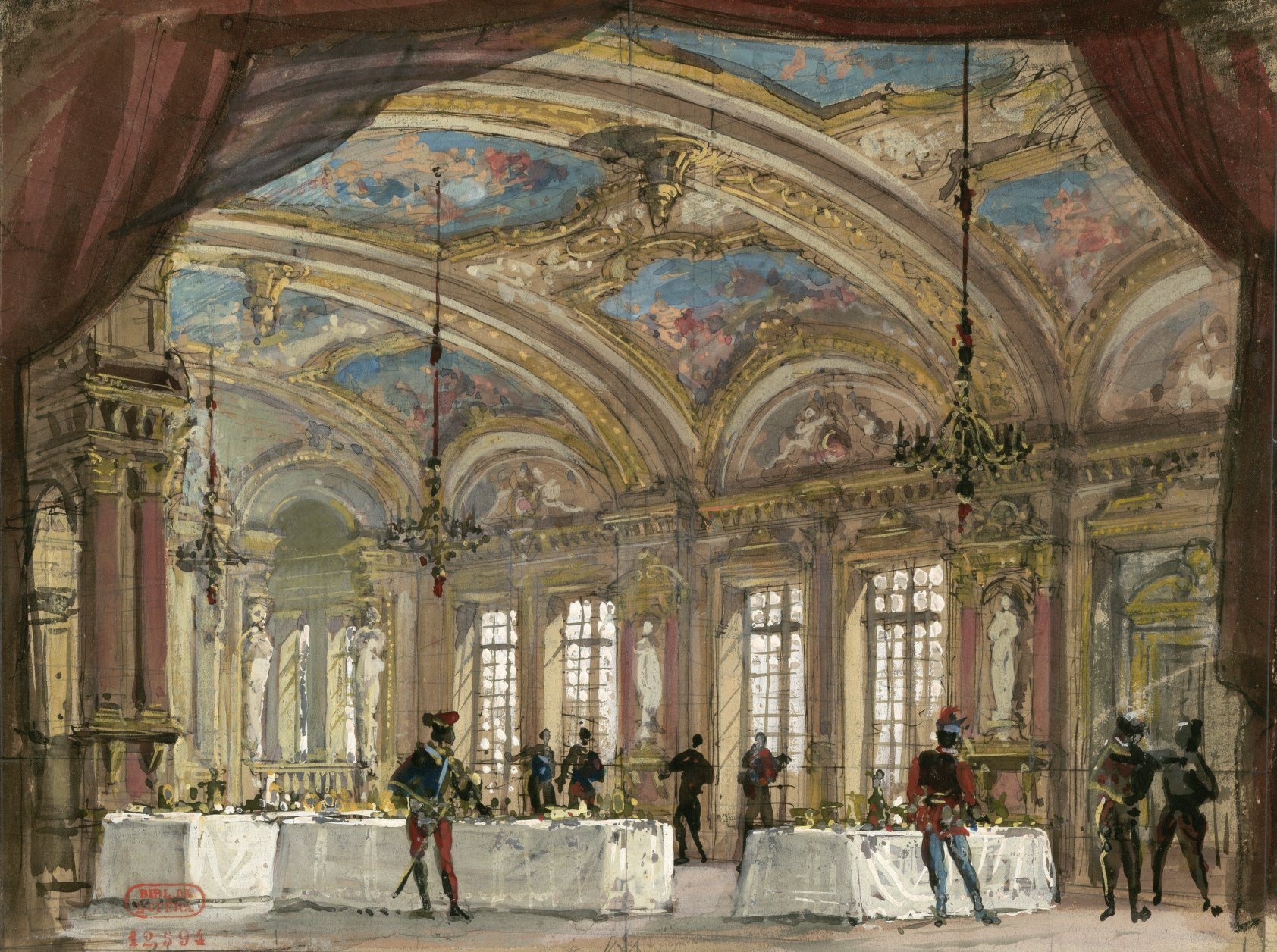 Les Huguenots: sketch of the opera set for the first act (1874)